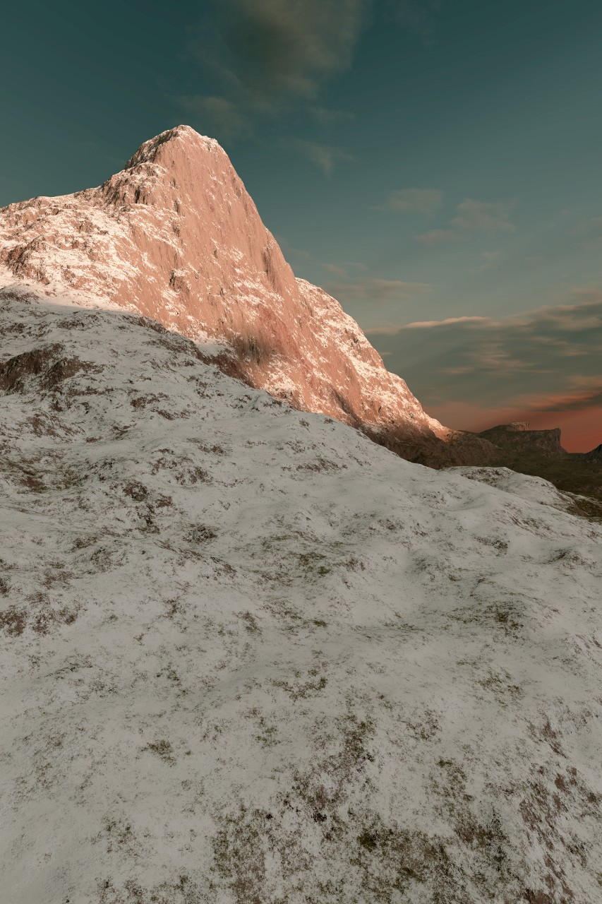 Artists depiction of Caradhras, one of the peaks of Misty Mountains, Middle-earth.